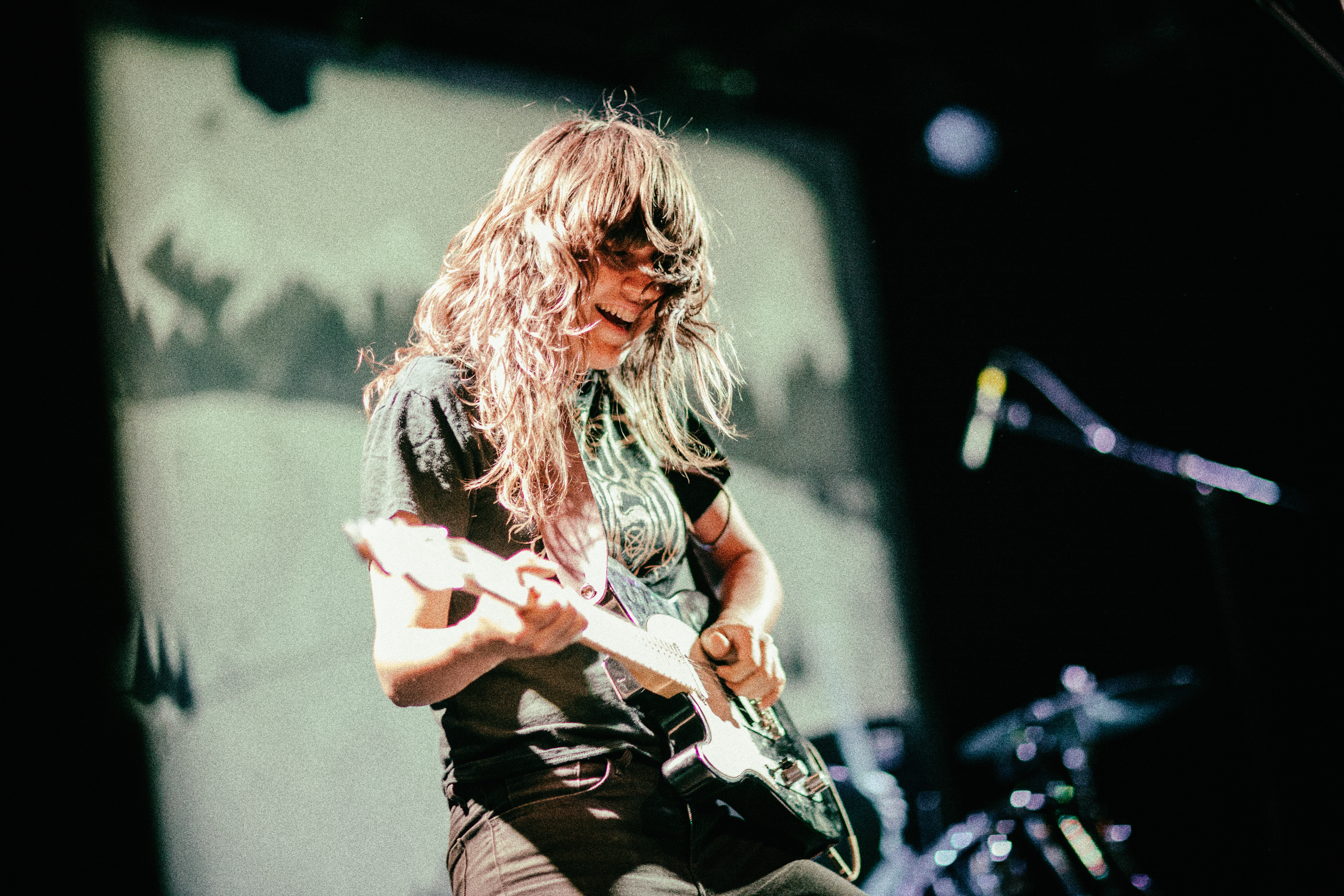 CAMBRIDGE, MA - JUNE 18: Australian upstart Courtney Barnett plays her first tour in the US, with support from Benjamin Booker. Shot at The SInclair in Cambridge, MA on Sunday, June 18th.